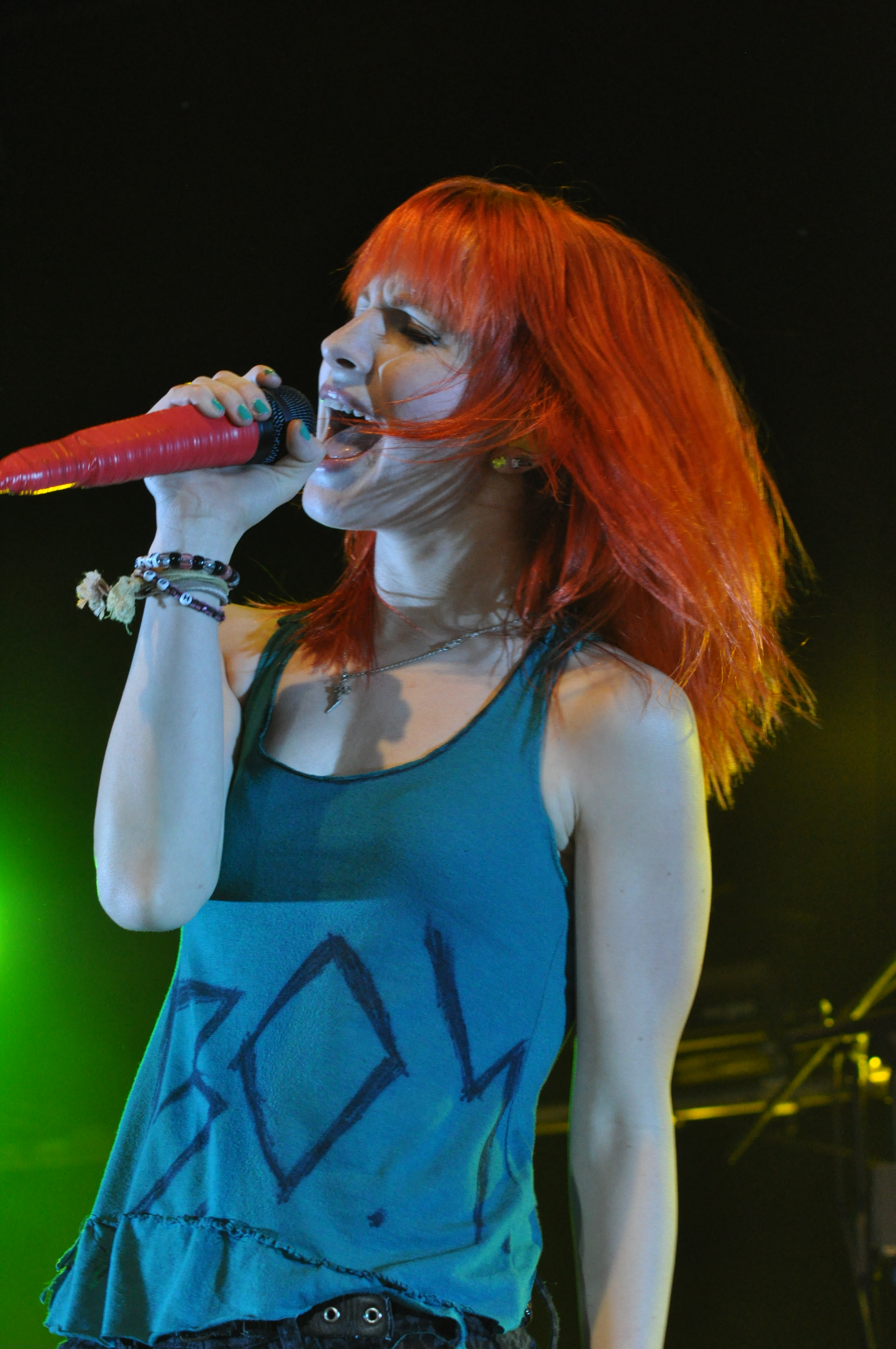 Hayley Williams, singer from Paramore. Concert at Corferias, Bogotá, Colombia. Foto by Carlos Mario Ríos C@M@r